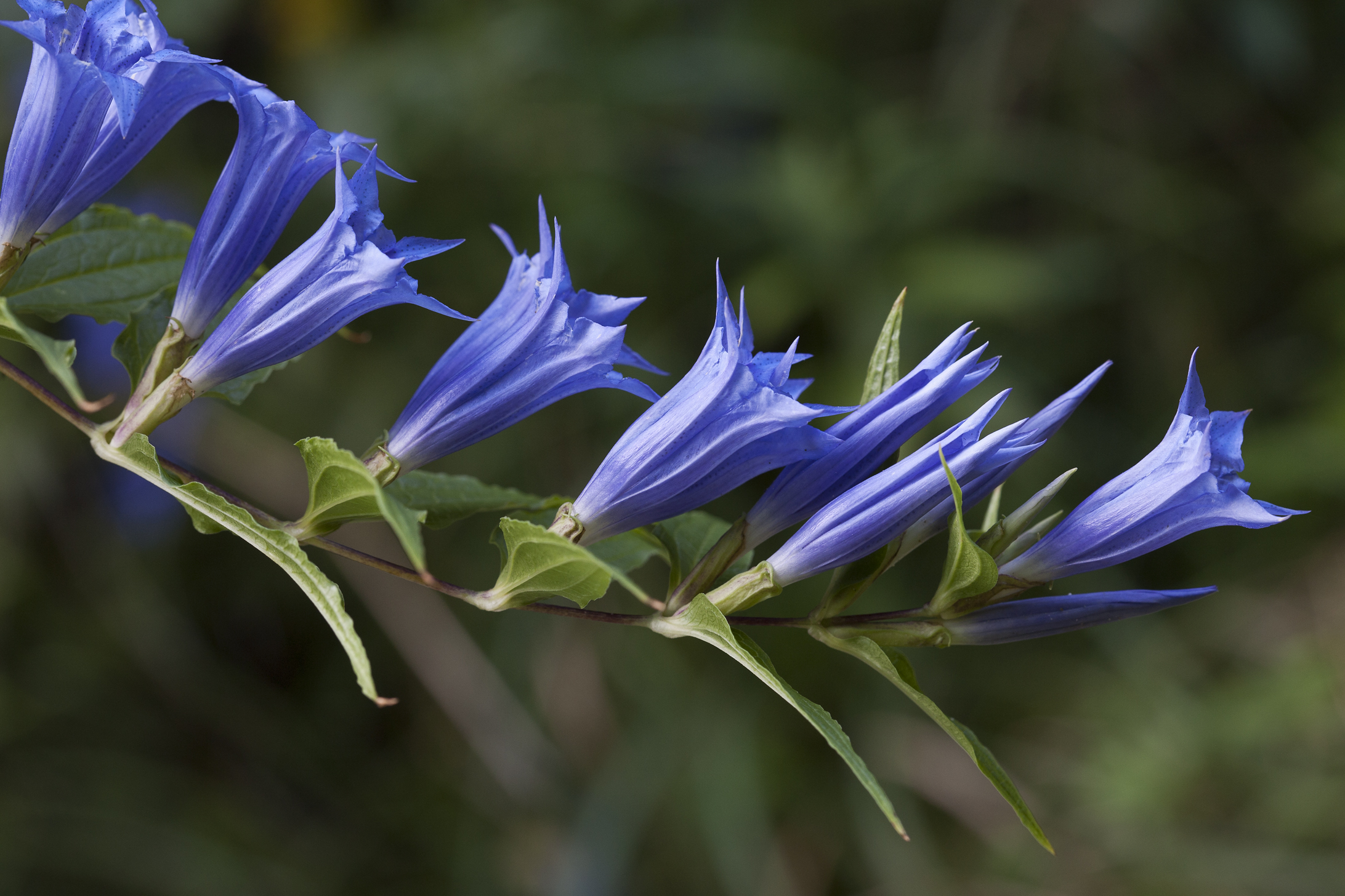 Gentiana asclepiadea